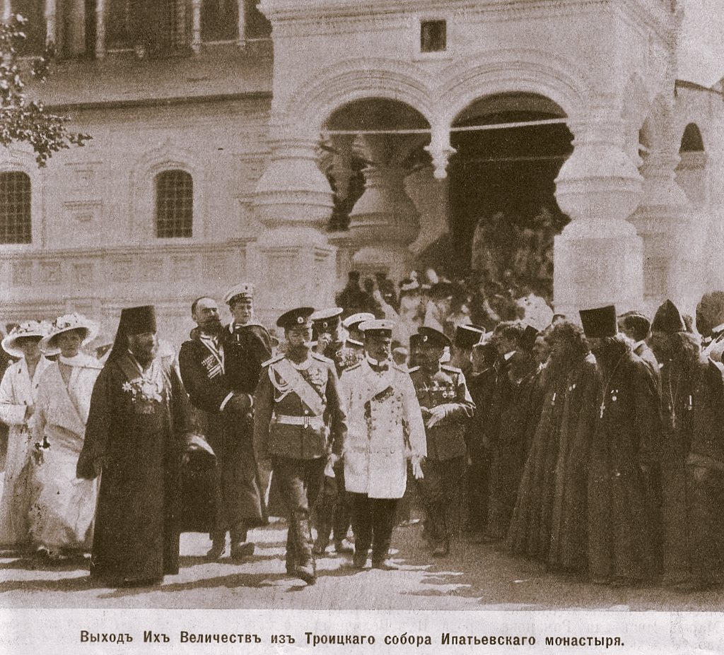 Nikolay II in Ipatiev Monastery (1913)